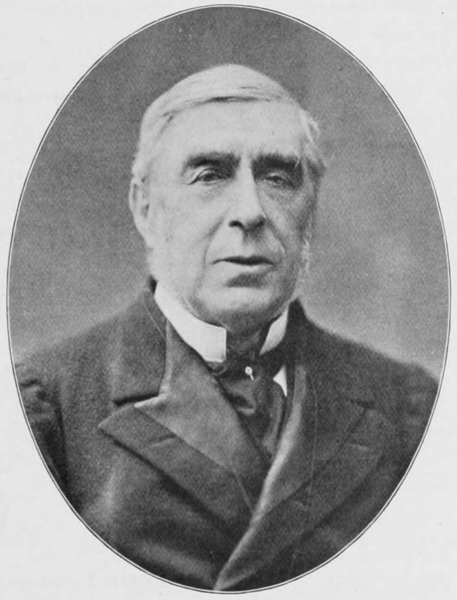 photograph of George Goschen 1st Viscount Goschen (10 August 1831 – 7 February 1907)